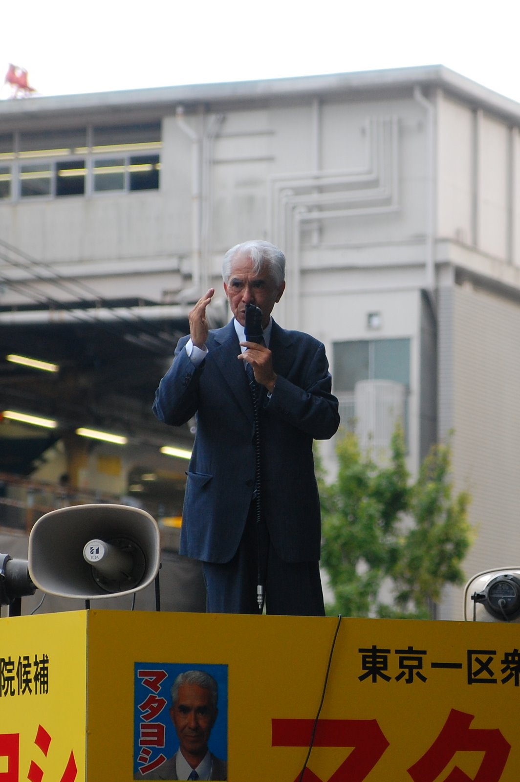 Mitsuo Matayoshi, Candidate for Member of the House of Representatives, did street oratory in Tōkyō Metropolis on October 30, 2009.